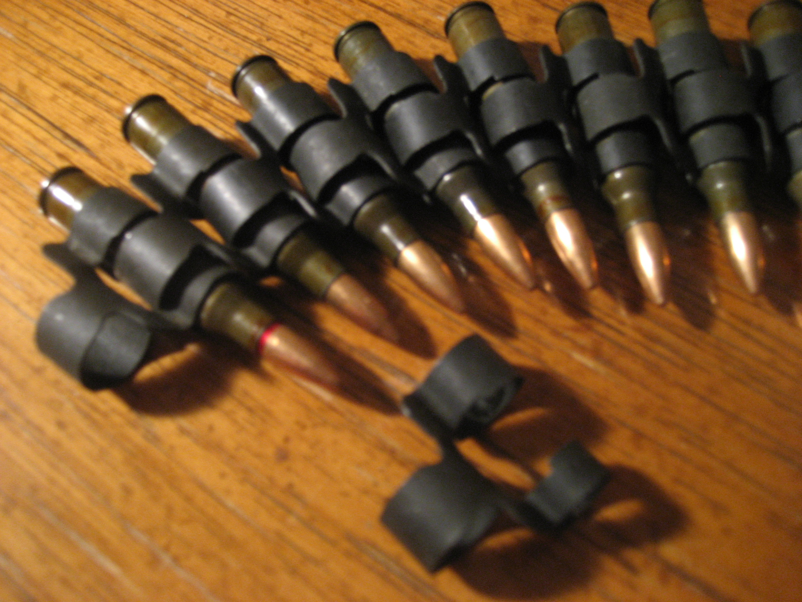 5.56x45mm ammo on M249 belt